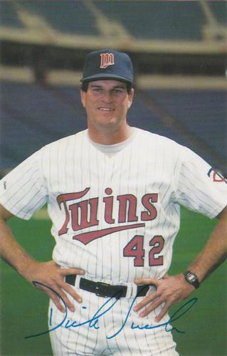 Professional baseball coach Dick Such